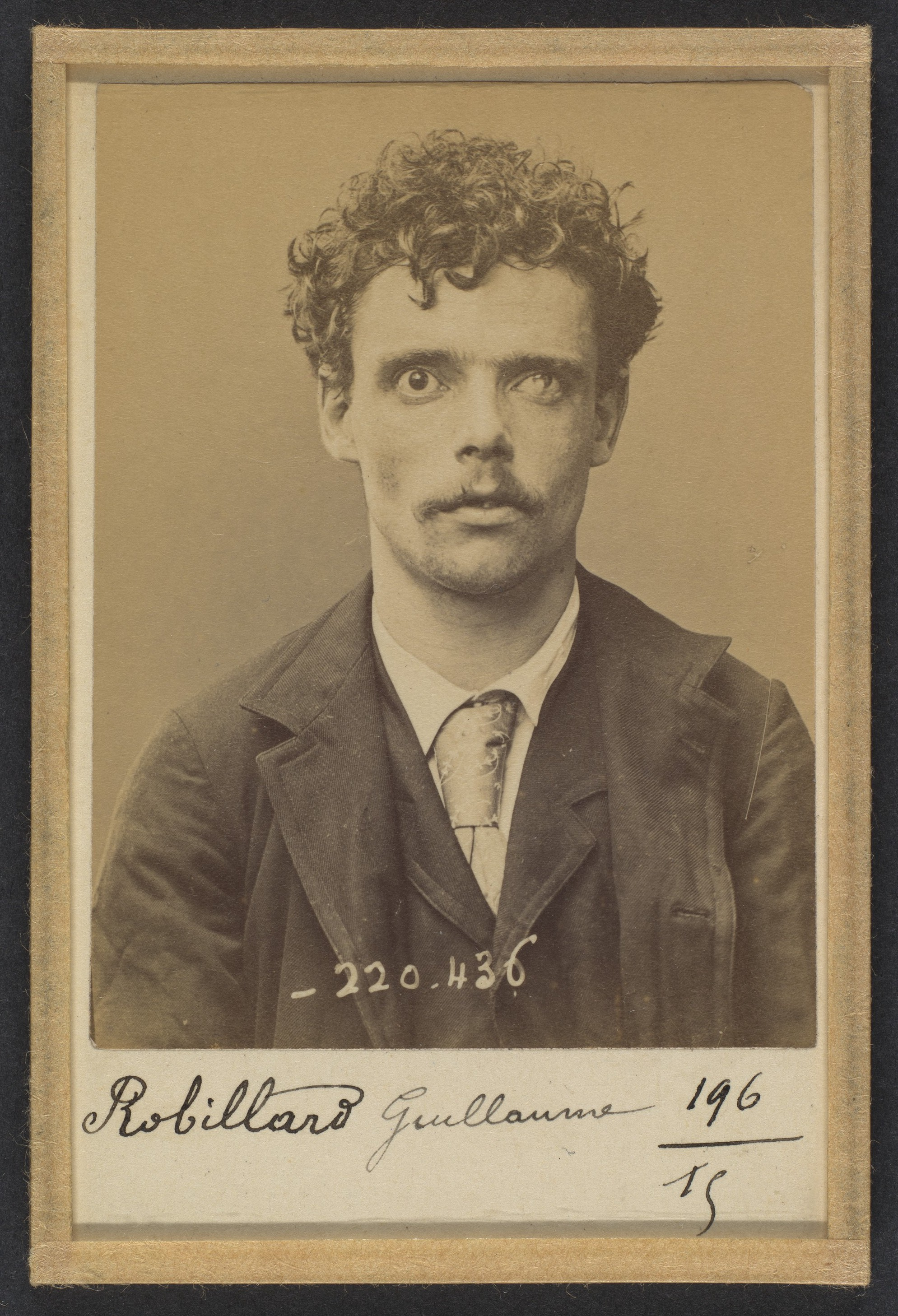 Mugshot; Photographs